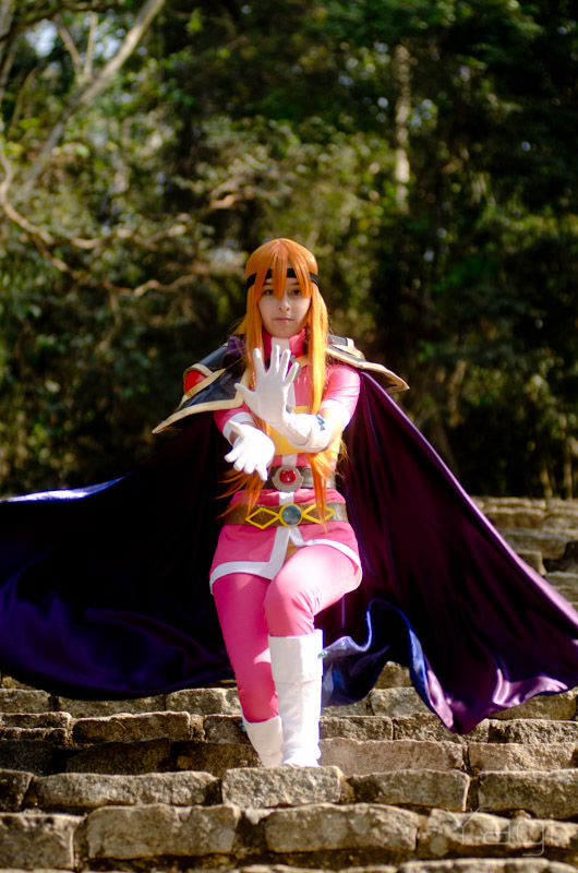 Tata as Lina Inverse from Slayers.